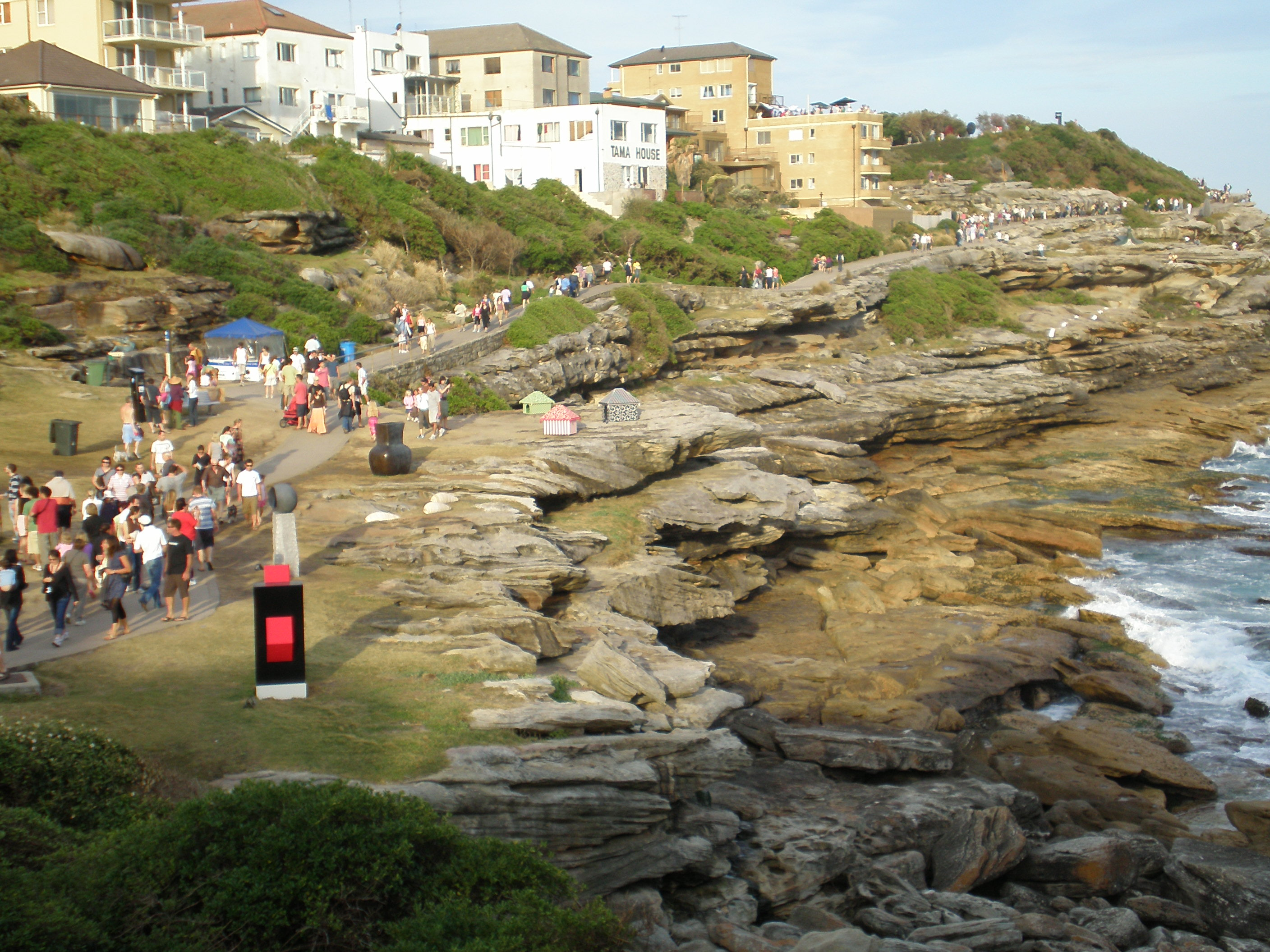 The large crowd at the 2006 Bondi Sculpture by the Sea. The event attracts a large number of locals and tourists. Some sculptures are visible at the front of the photo, and Marcs Park is on the right of the photo, which holds a large number of the sculptures.